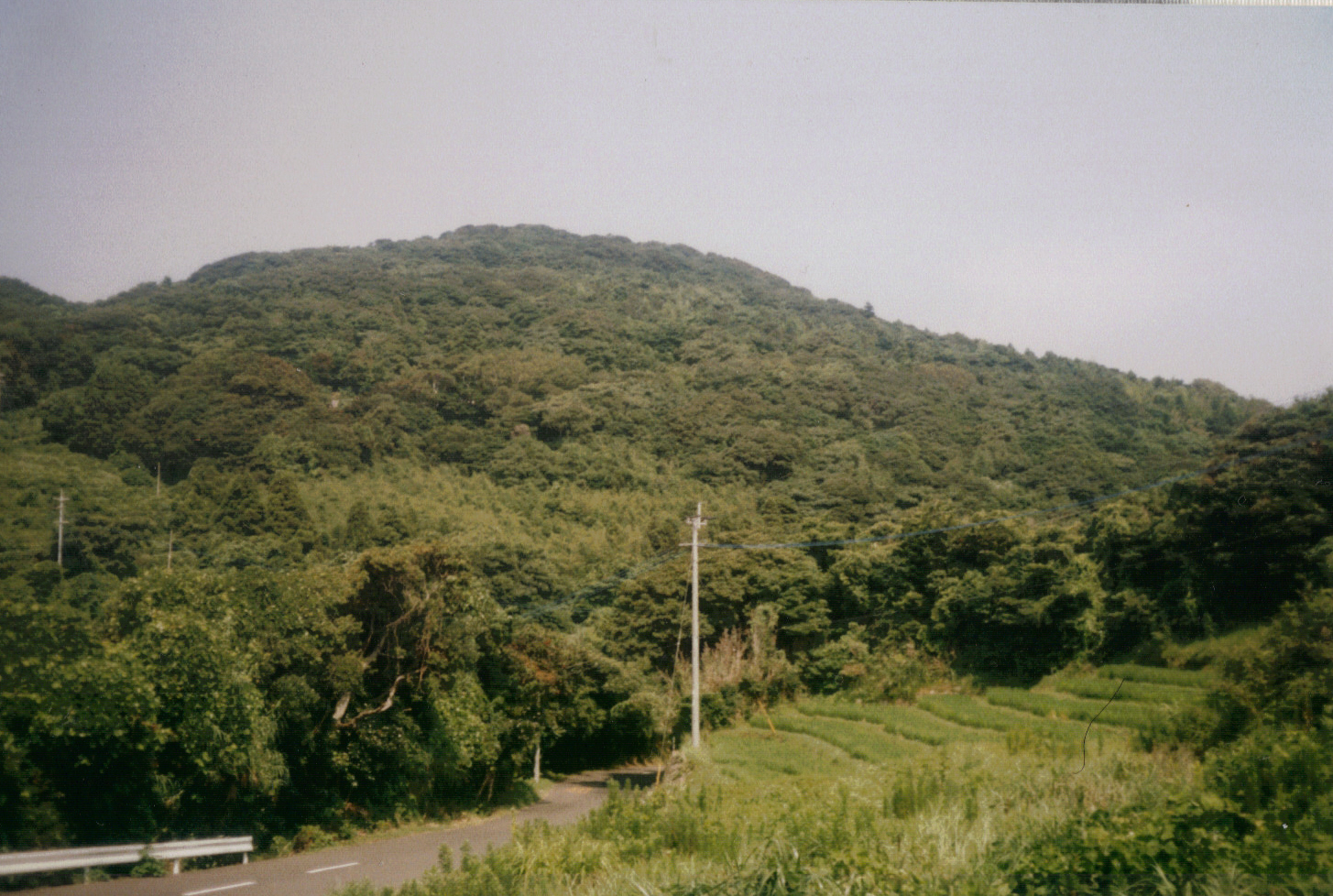 Kuroshima Island near Sasebo, Nagasaki Ken, Japan.